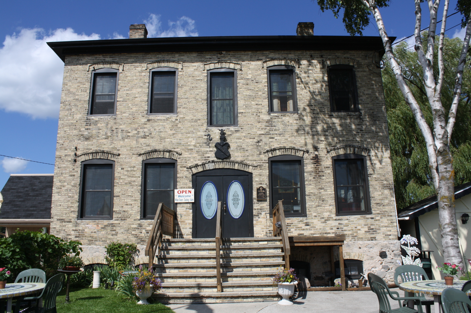 The Von Stihl Winery in Algoma, Wisconsin. It is listed on the National Register of Historic Places as the Anhapee Brewery.